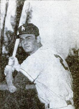 An image of Major League Baseball player Don Demeter.